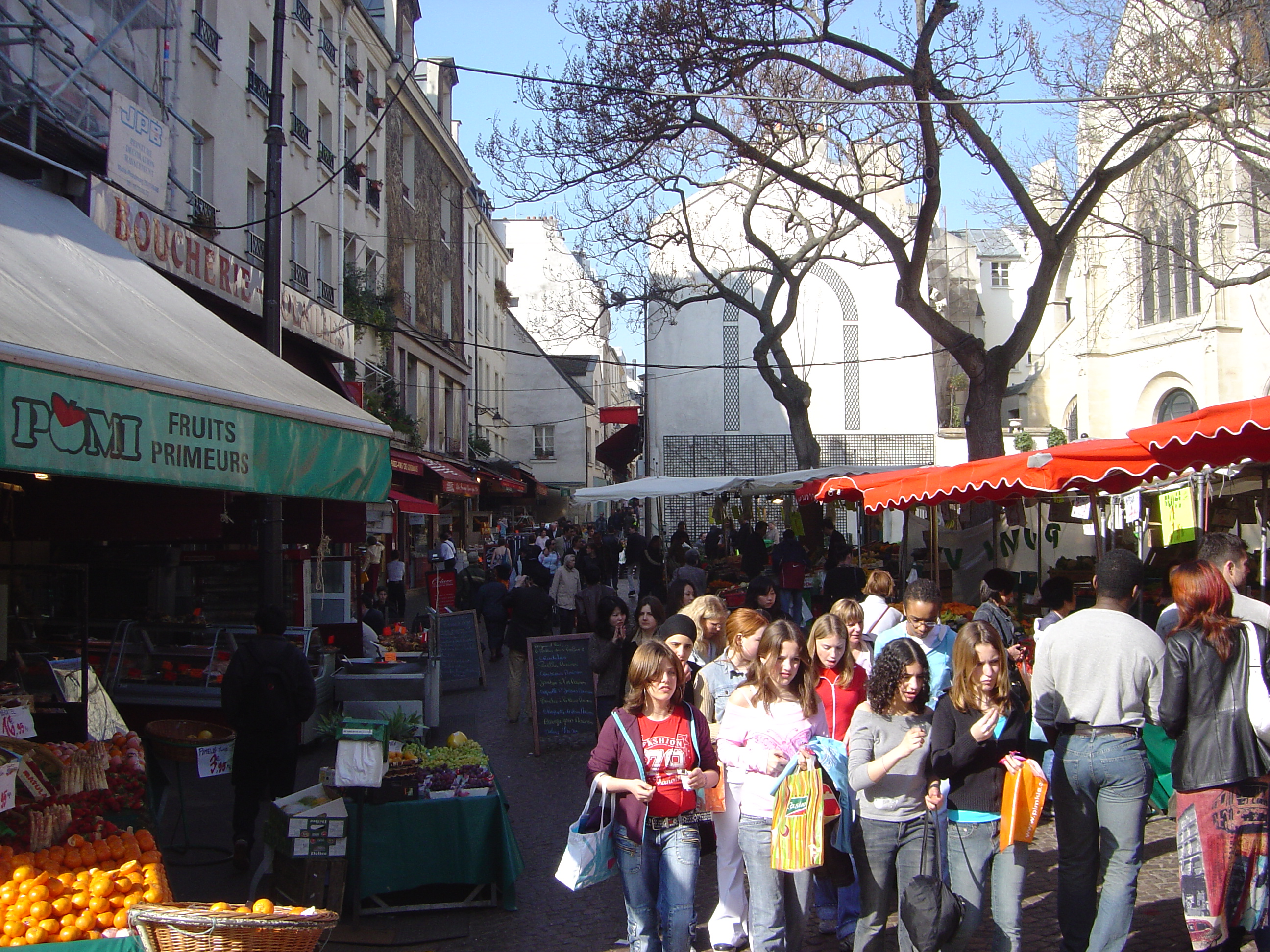 street market at the bottom of rue Mouffetard, Paris